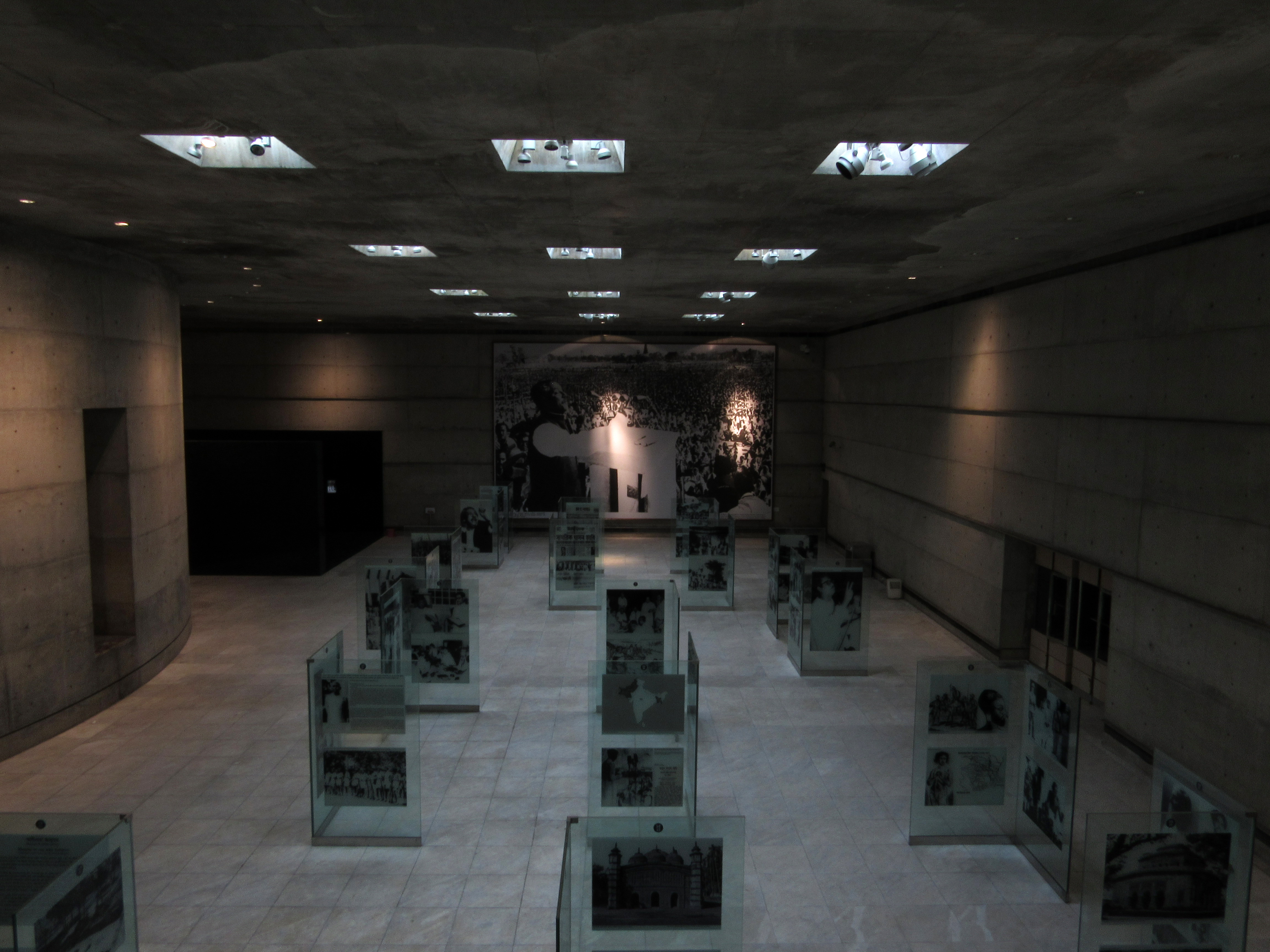 The gallery of Museum of Independence at Shahbagh in Dhaka, Bangladesh.